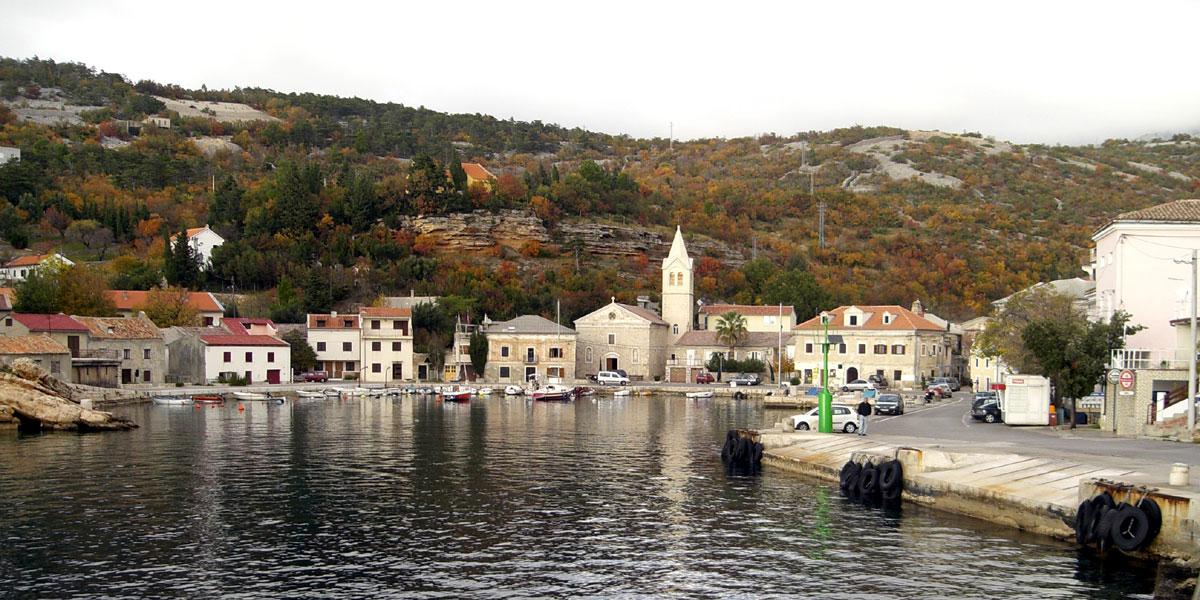 Jablanac, Croatia